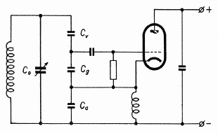 Seiler oscillator circuit diagram with vacuum tube